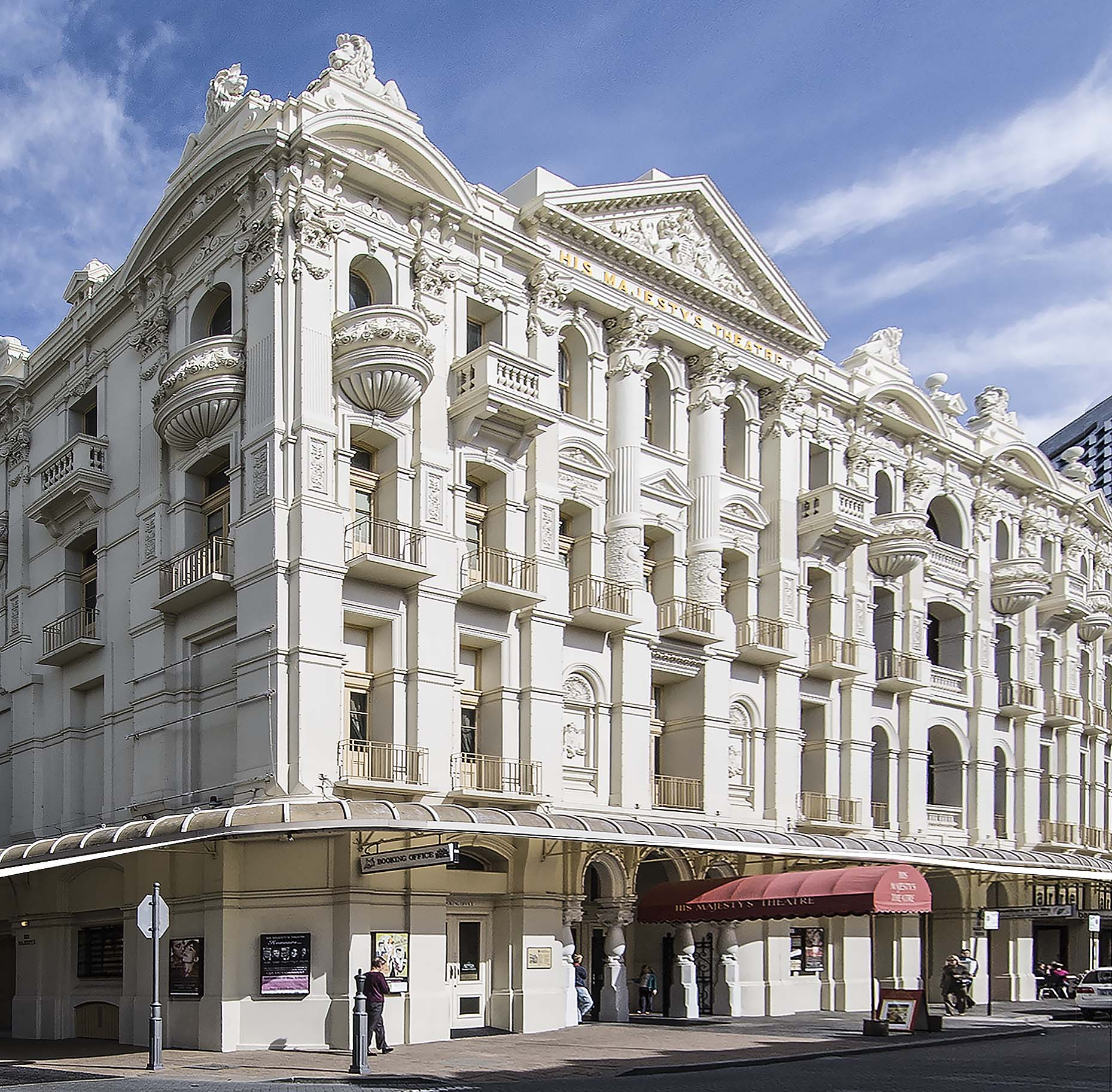 The theatre dominates the surrounding streetscape